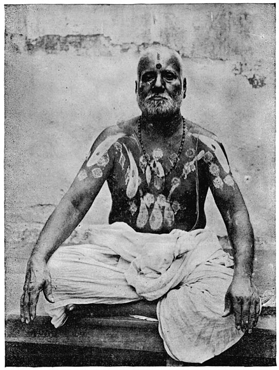 Image of Madhwa Brahmin, Madras Presidency, 1909. From Castes and Tribes of Southern India